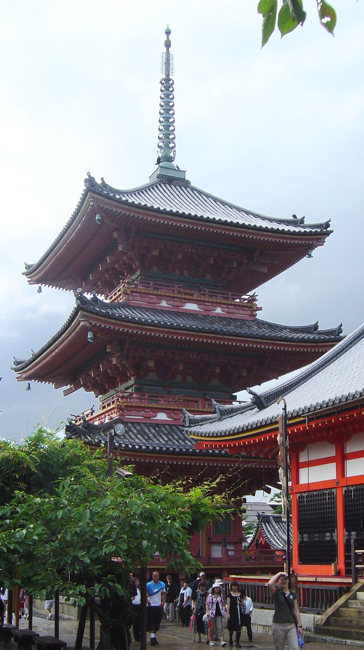 the pagoda at the Kiyomizu-dera in Kyoto, Japan